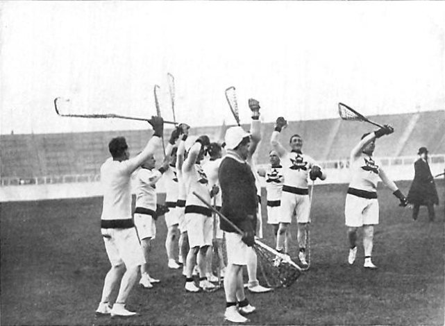 Lacrosse at the 1908 Summer Olympics. Shows "the Canadian winners cheering the United Kingdom".